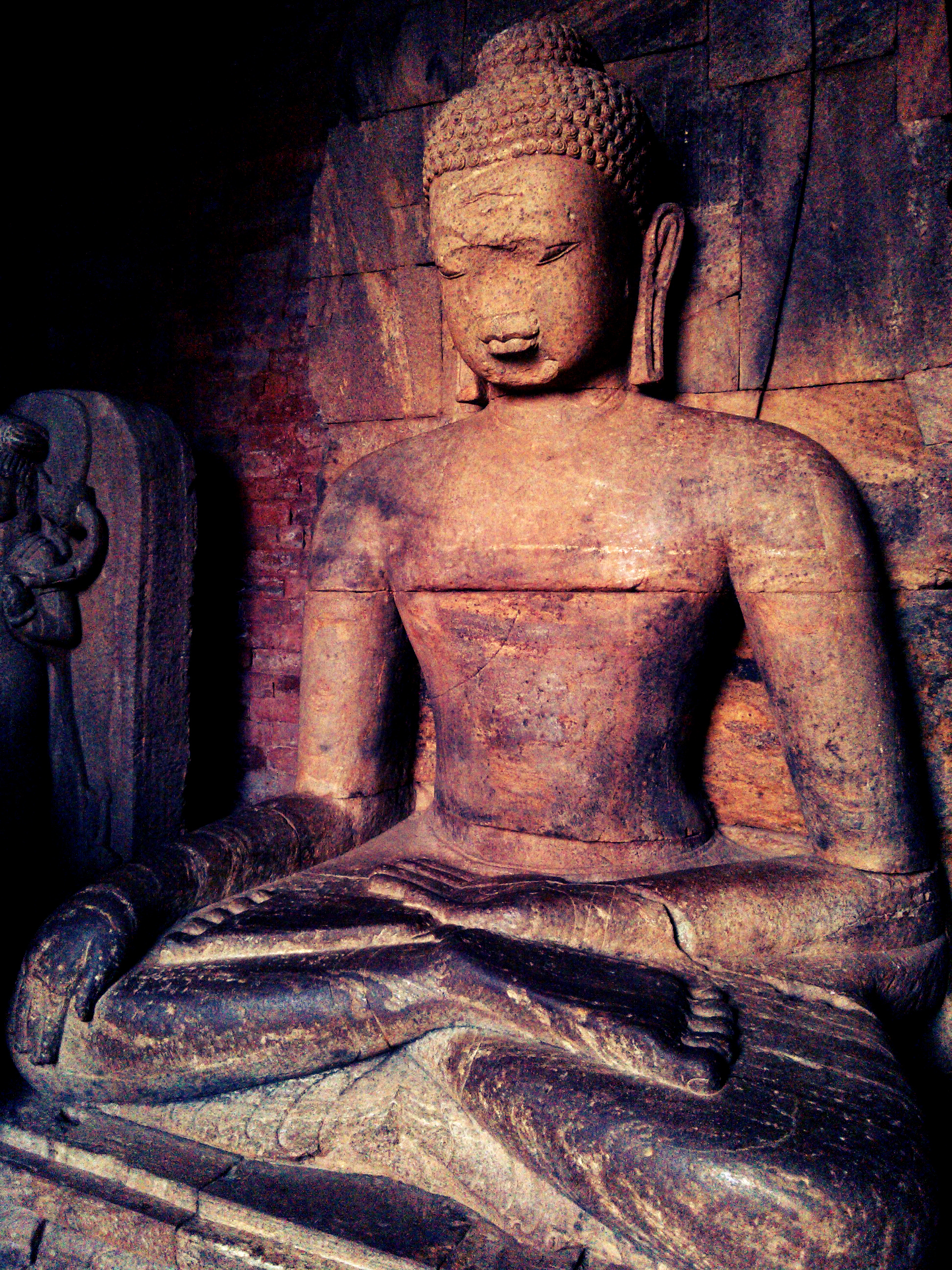 Buddha's structure inside main complex